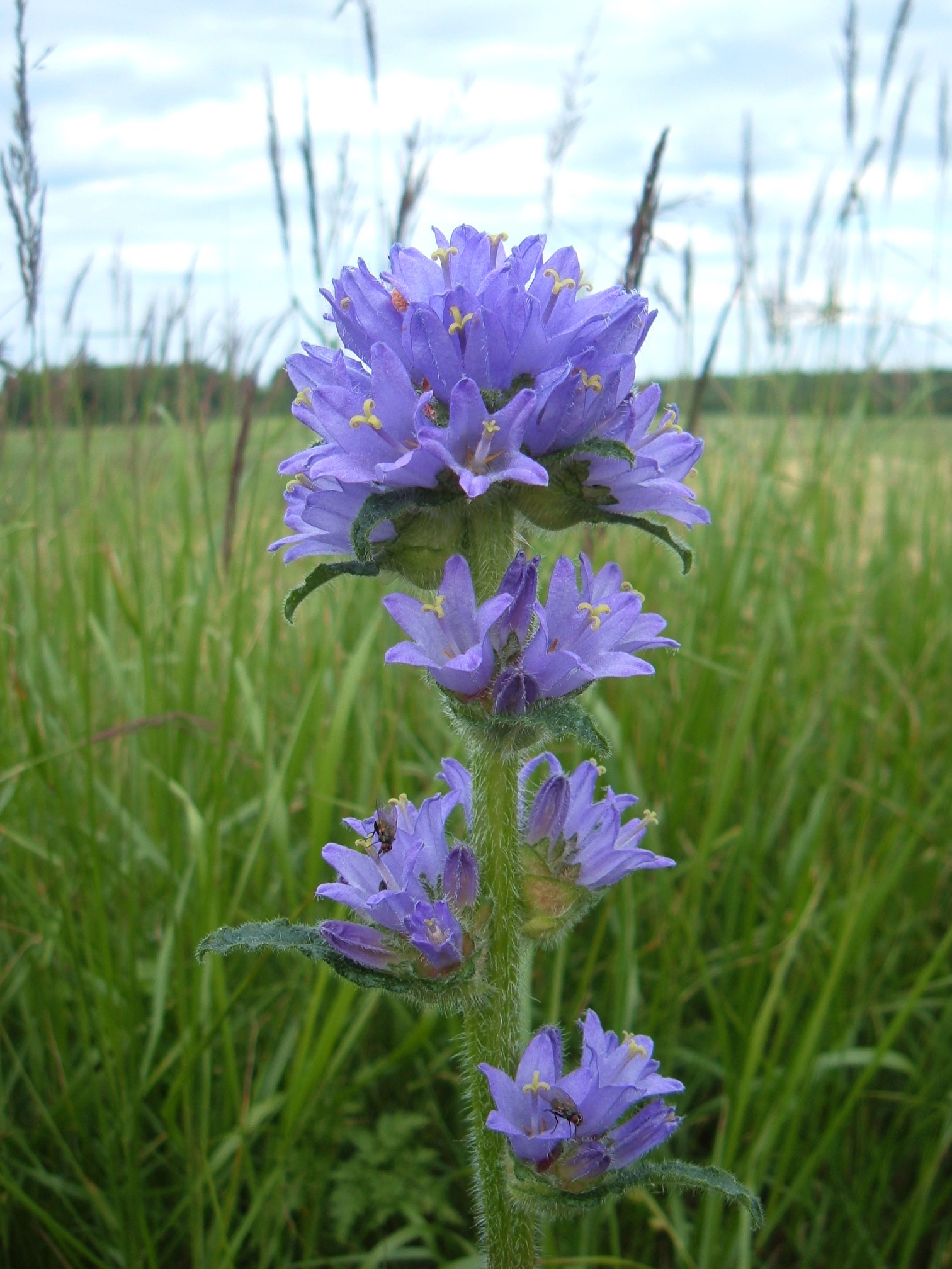 Bristly Bellflower